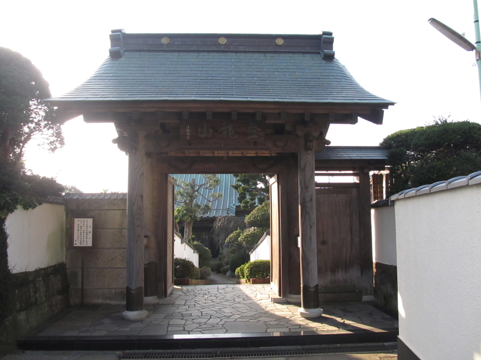 Sanmon at Shinjo-in in Fujisawa City, Kanagawa Prefecture, Japan